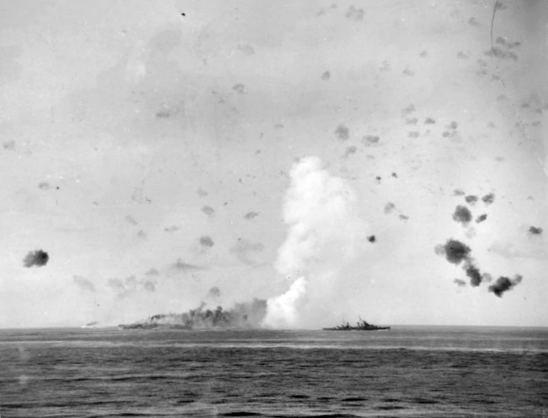 Operation Pedestal, 12 August 1942: HMS Indomitable (92) on fire after being bombed. A Dido-class cruiser, HMS Charybdis (88), is screening the carrier.